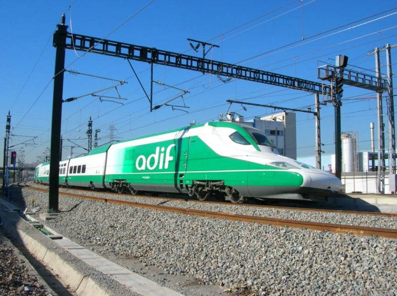 Seneca ADIF rail lab on the second day of tests on electrical equipment between l'Hospitalet and Barcelona Sants. This picture was taken in L'Hospitalet (kp 615.0) looking SW and train heading towards Sants.